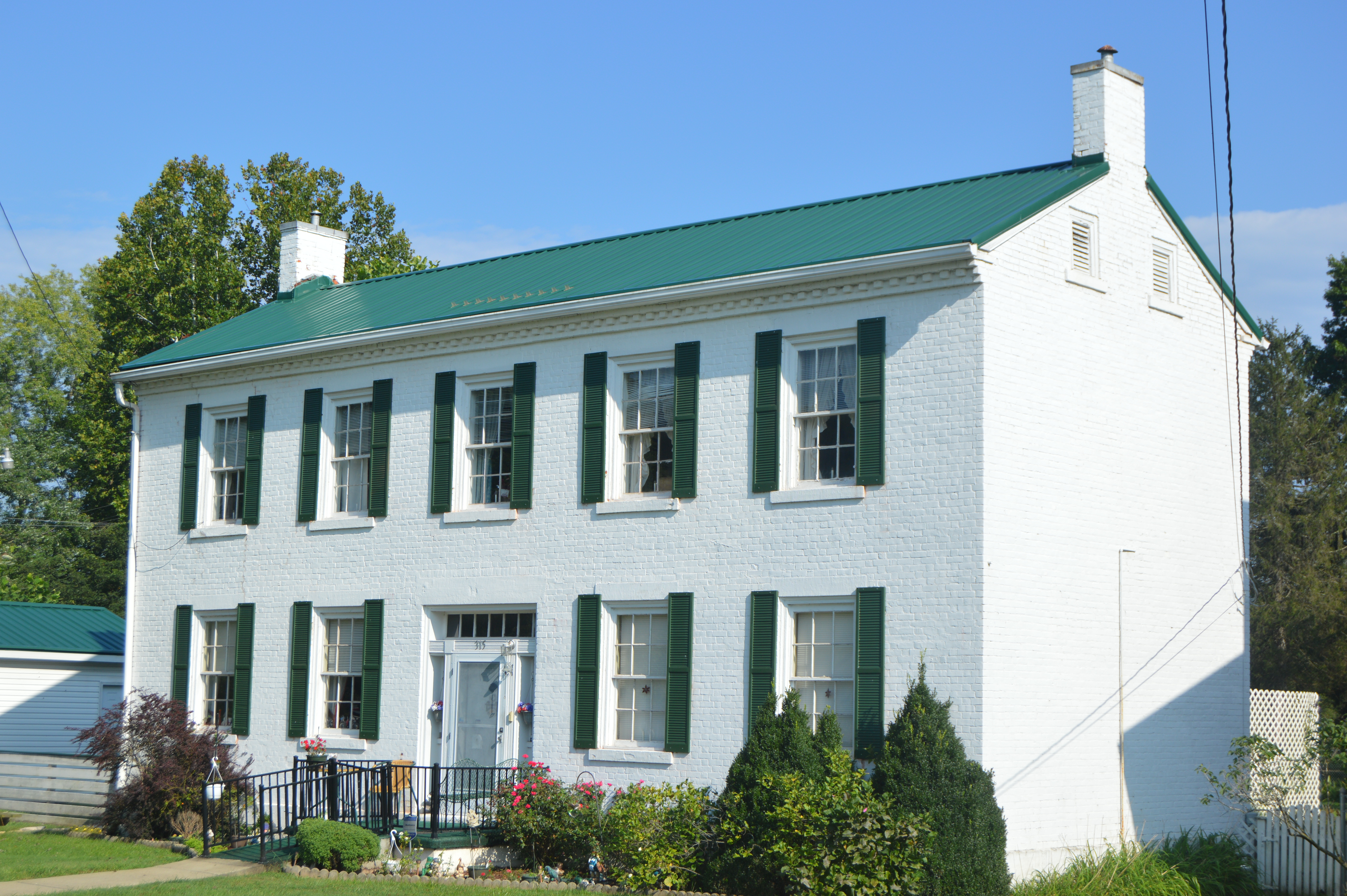 Front of the Armstrong House, located at 315 North Street in Ripley, West Virginia, United States. Built in 1848, it is listed on the National Register of Historic Places.